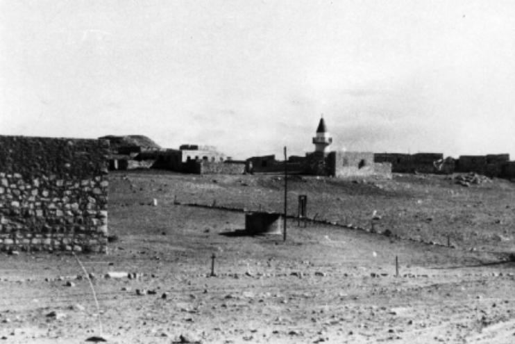 Bir al-Hassana, Egypt, 100km from border with Israel. 1948